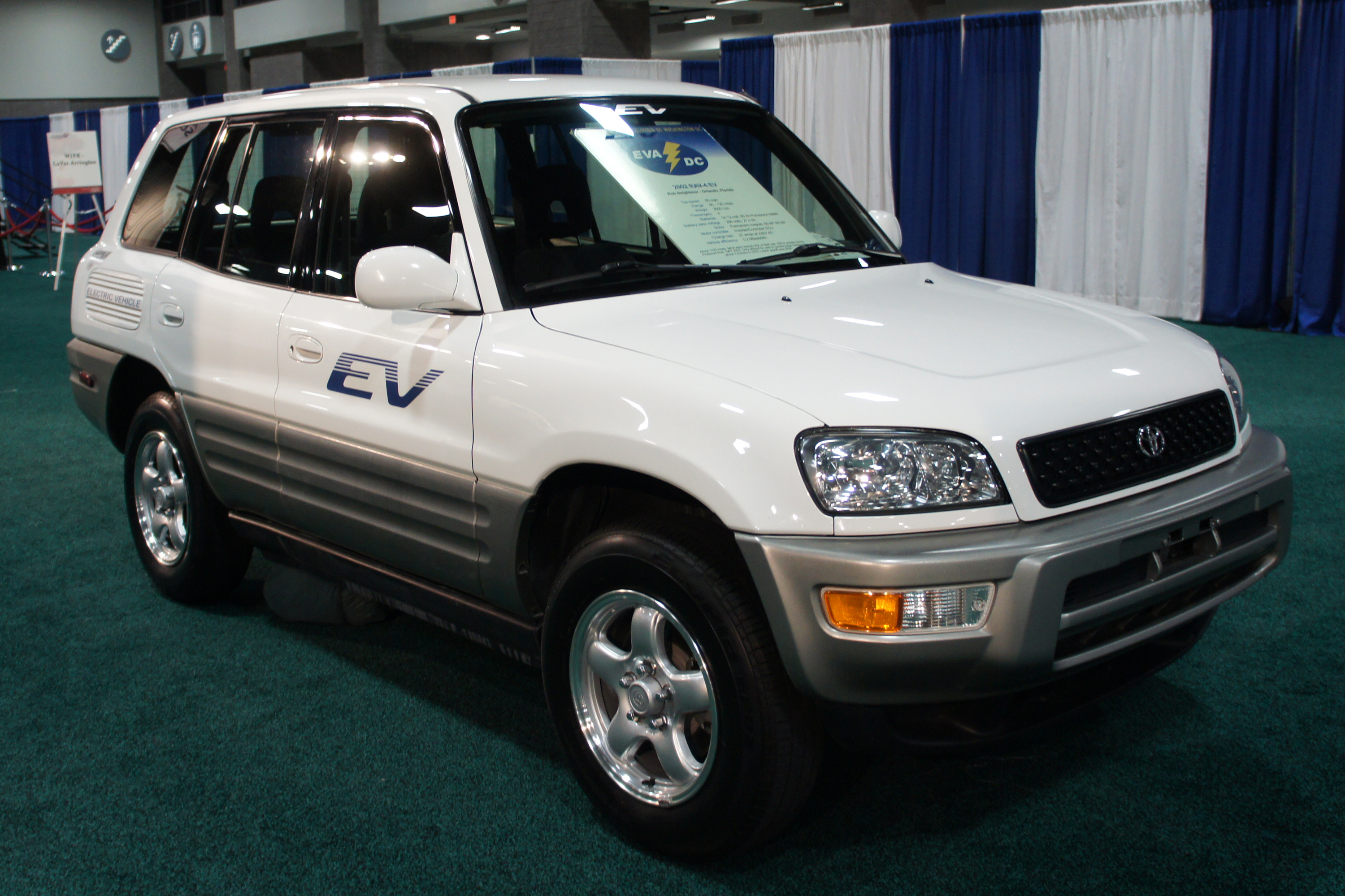 Toyota RAV4 EV first generation exhibited at the 2012 Washington Auto Show (District of Columbia)